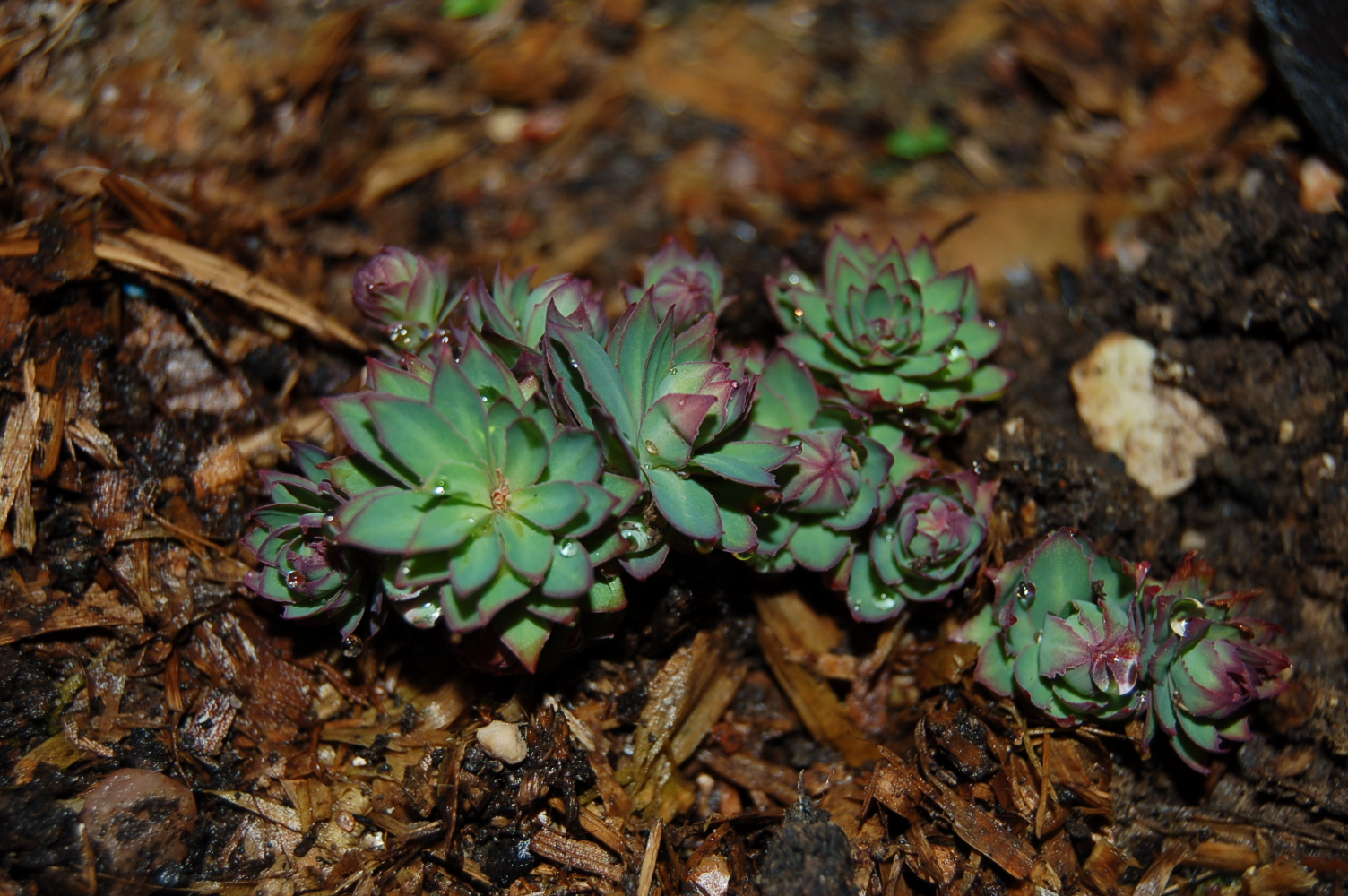 A young Rhodiola rosea growing in a sunny border U.K